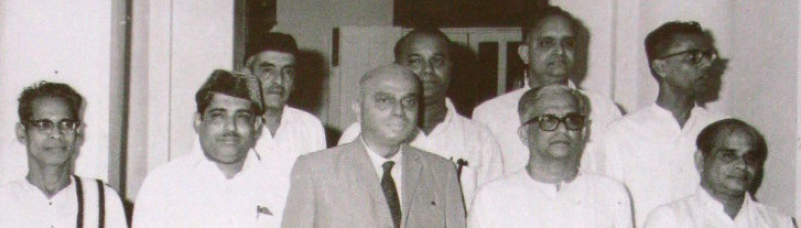 Kerala Ministers from 1969 Achutha Menon Ministry